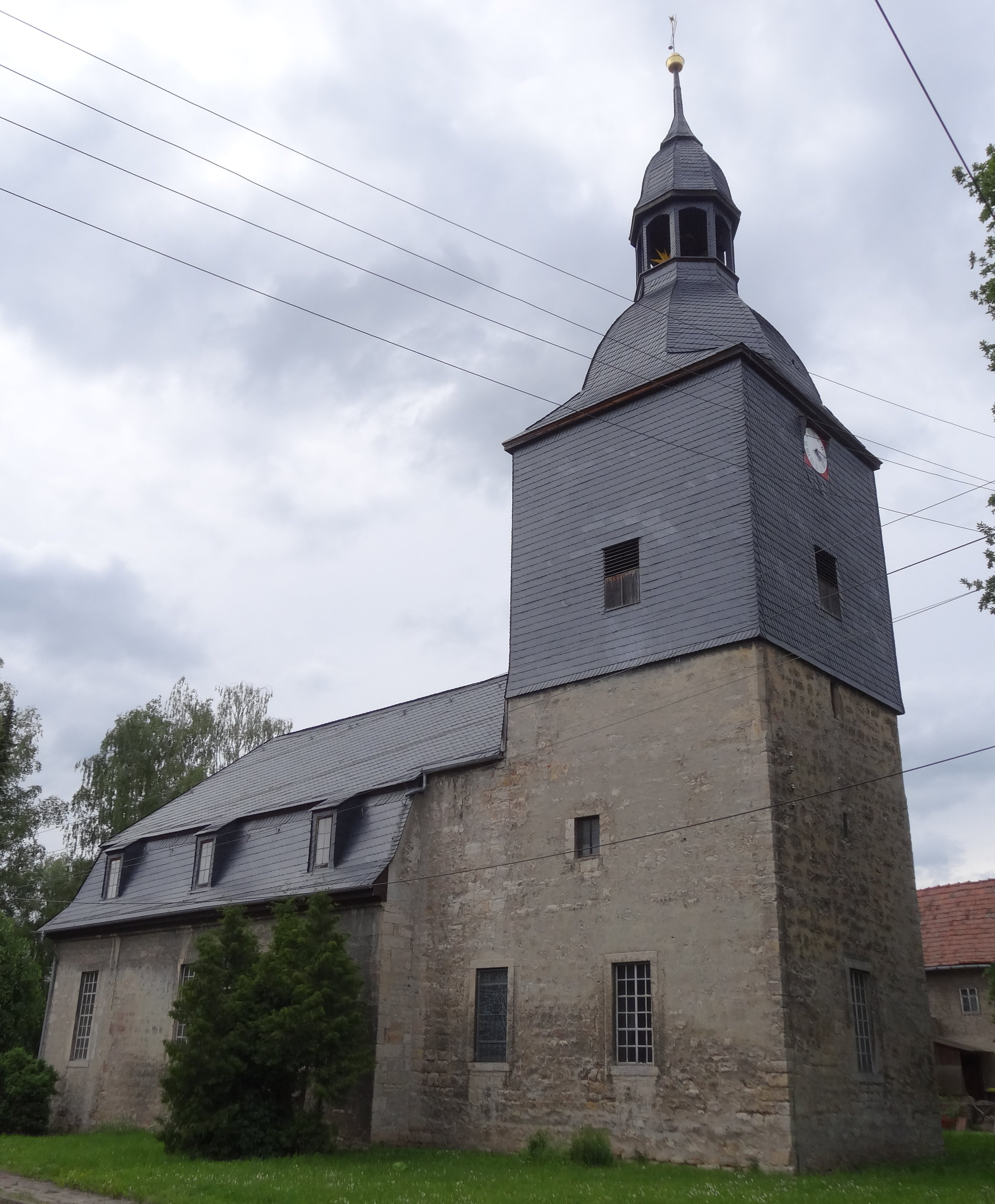 Church in Bucha